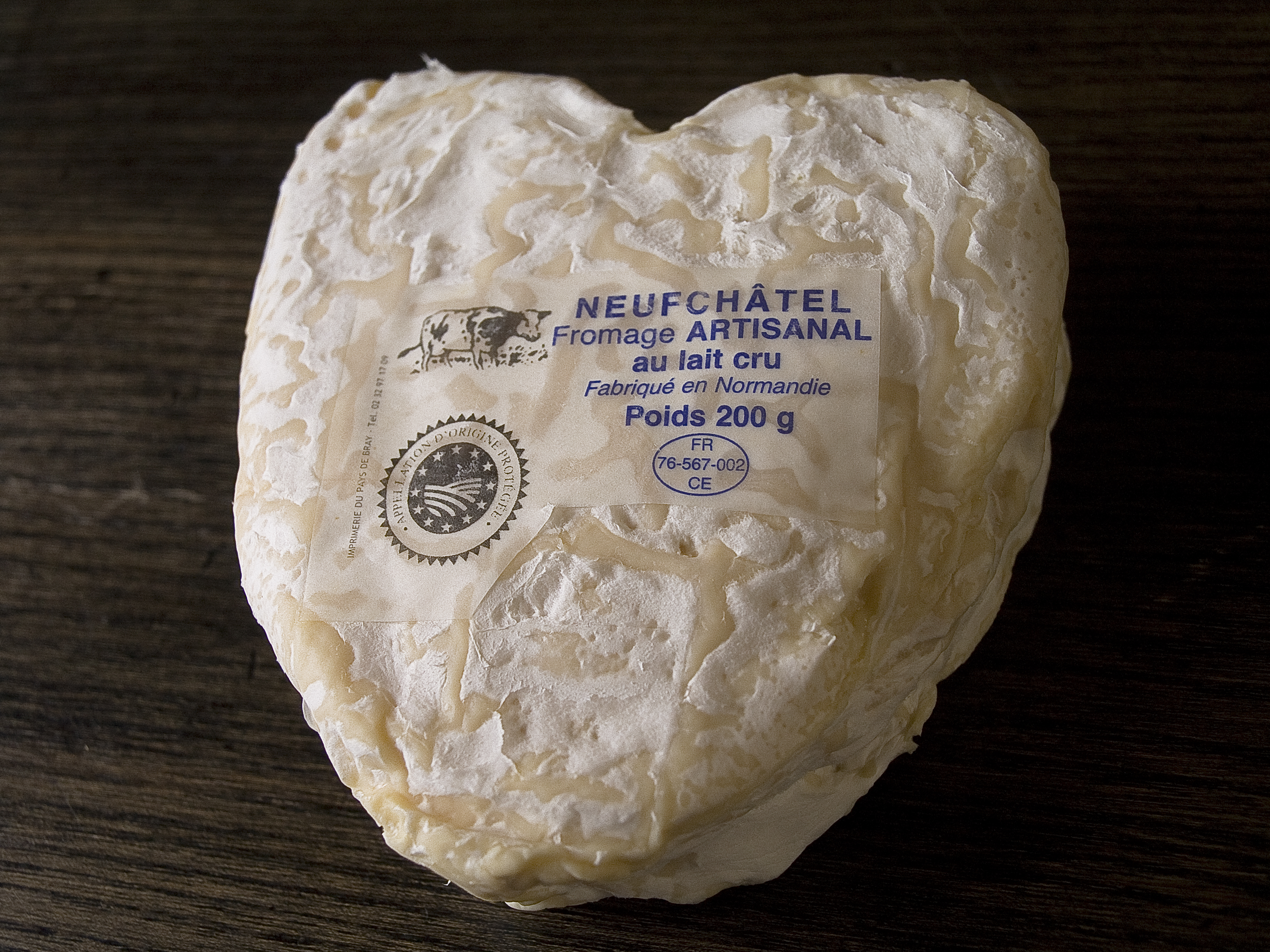 French Neufchâtel is a cheese labelled with a Protected Designation of Origin (PDO), made in the region of Normandy and usually sold in heart shapes.